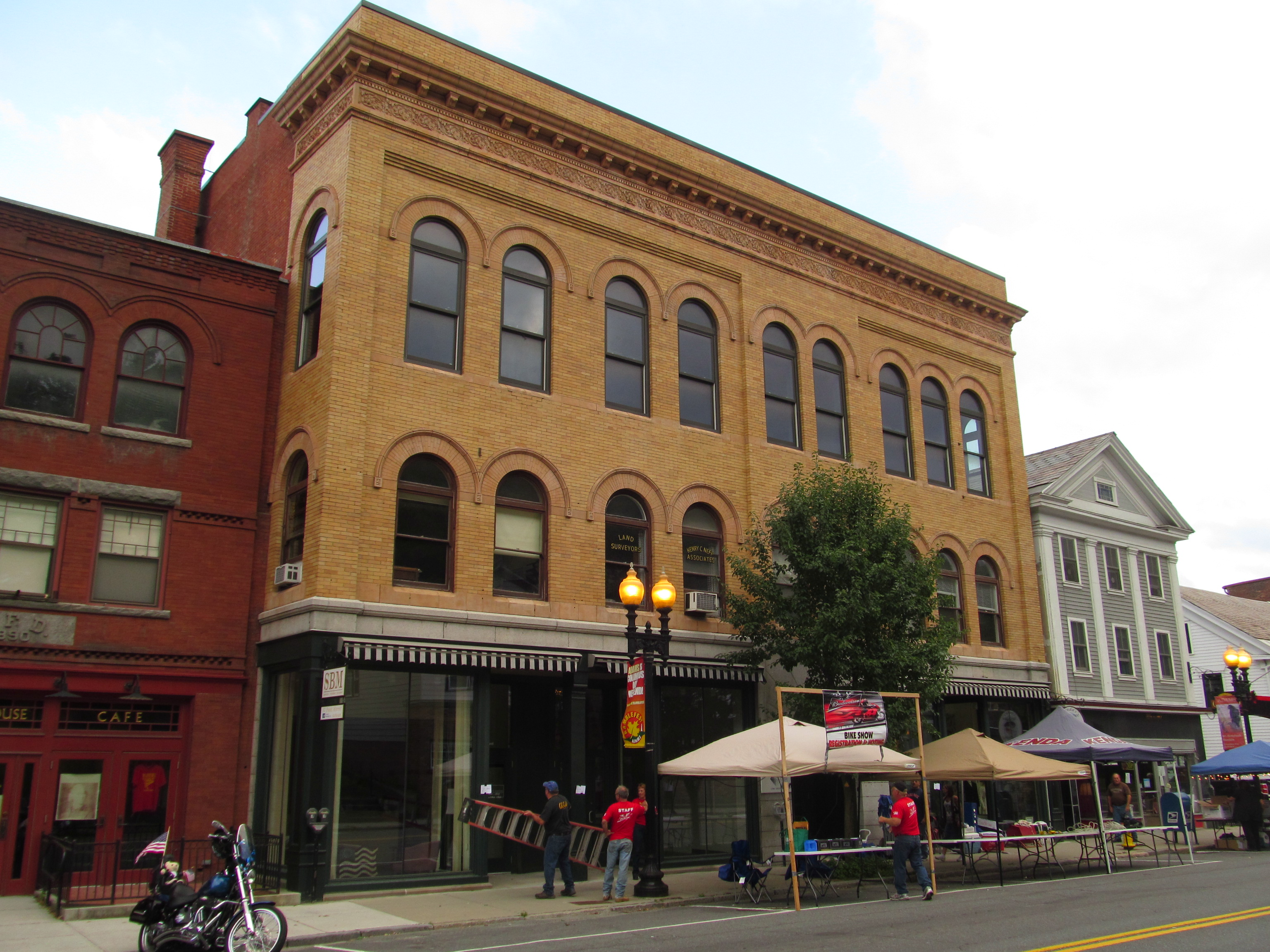 Armory Block, 41 Park Street, Adams Massachusetts